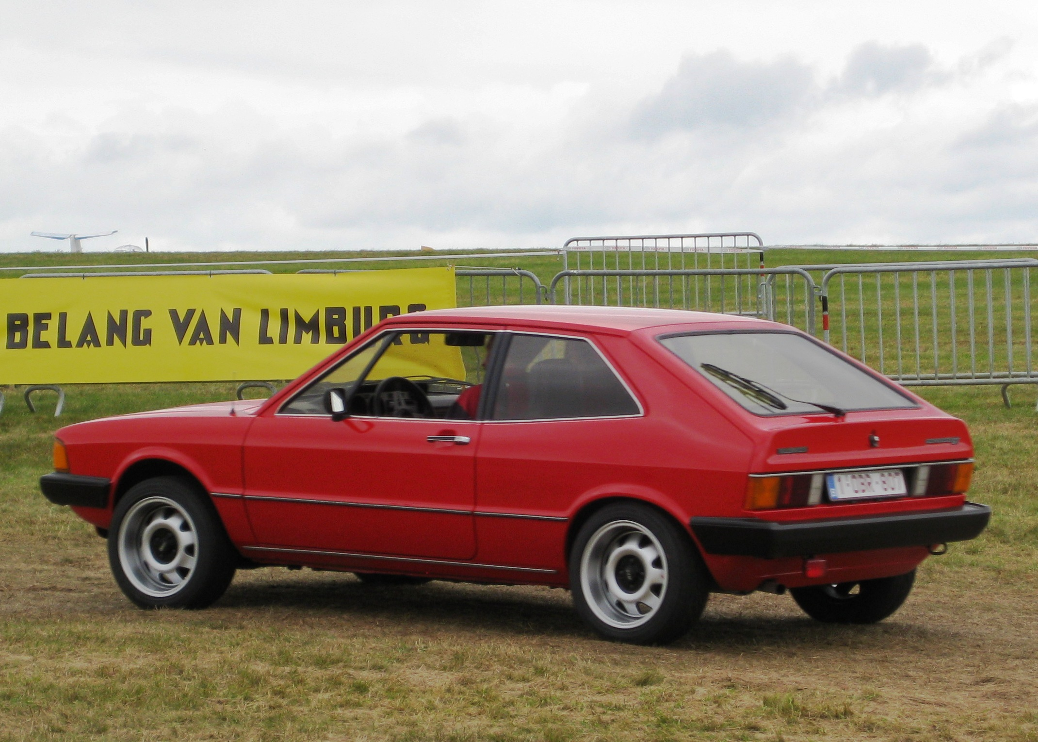 Volkswagen Scirocco I (post facelift) sporting ATS CUP Alloy wheels